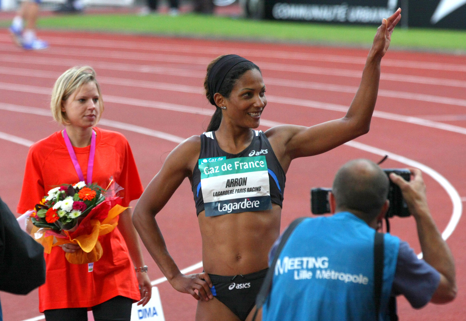 christine arron